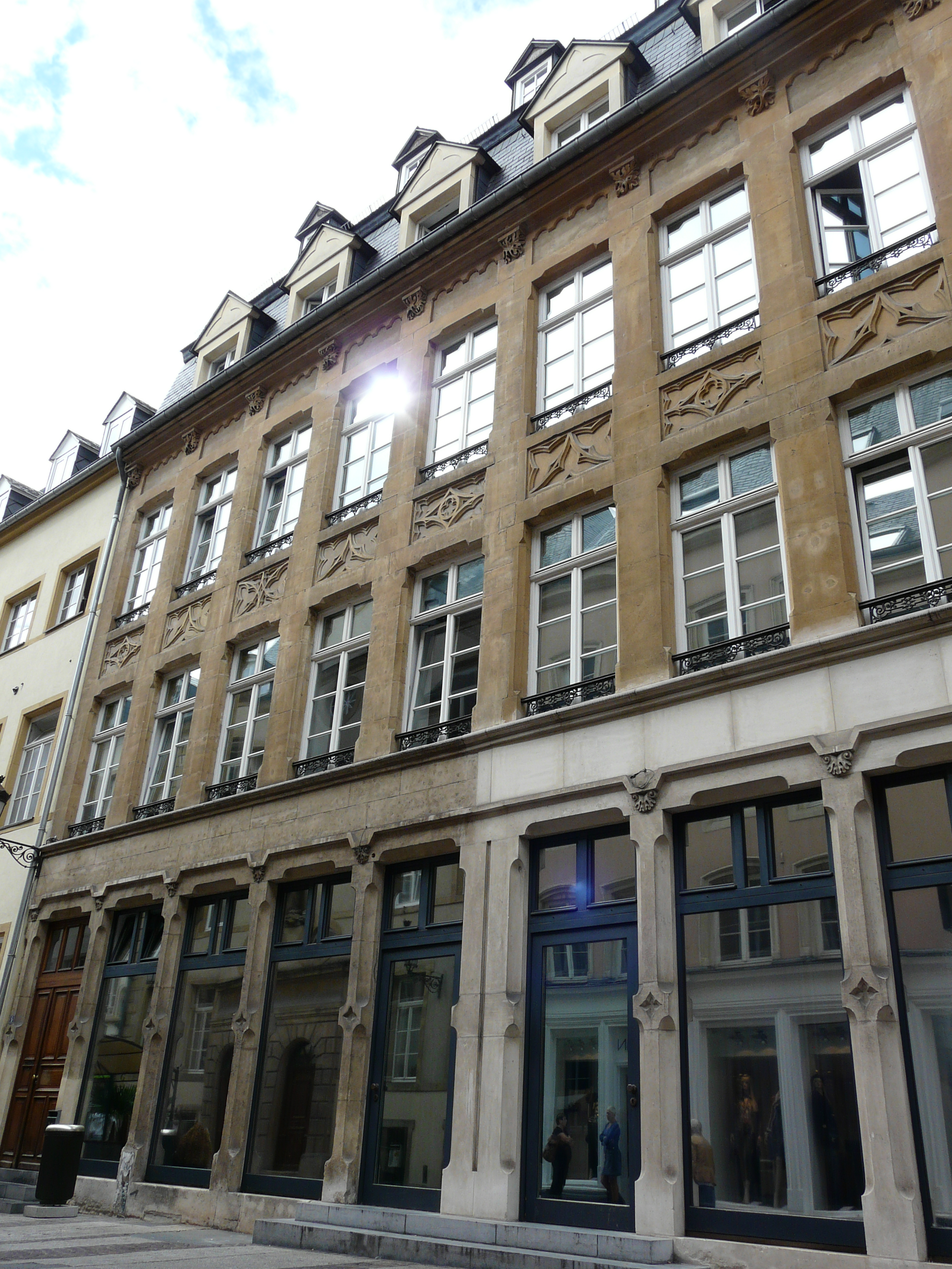 5 rue du Curé b